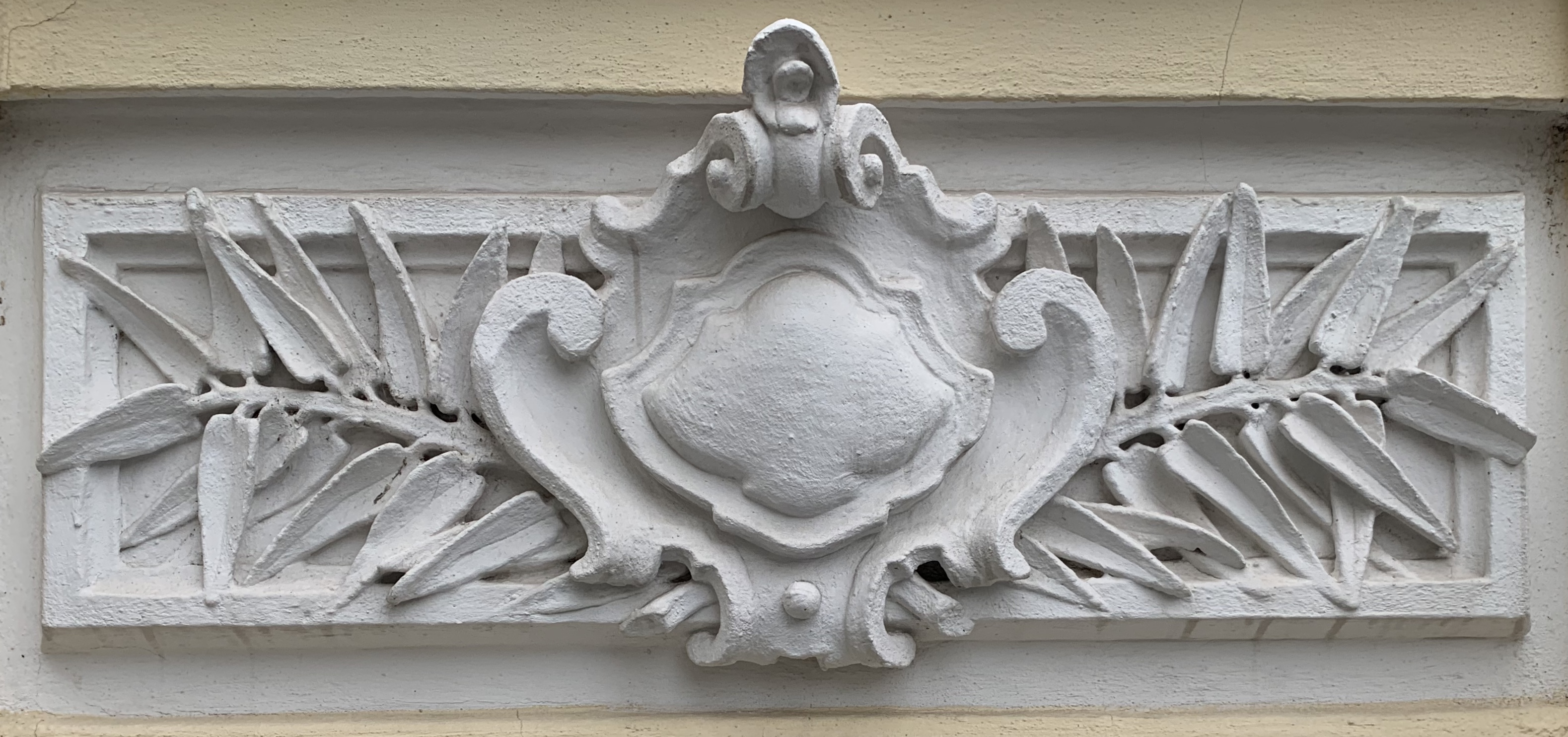 Cartouche on the house with number 9, on the Doctor Dimitrie D. Gerota street from Bucharest (Romania)